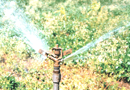 Photograph by Jisl.